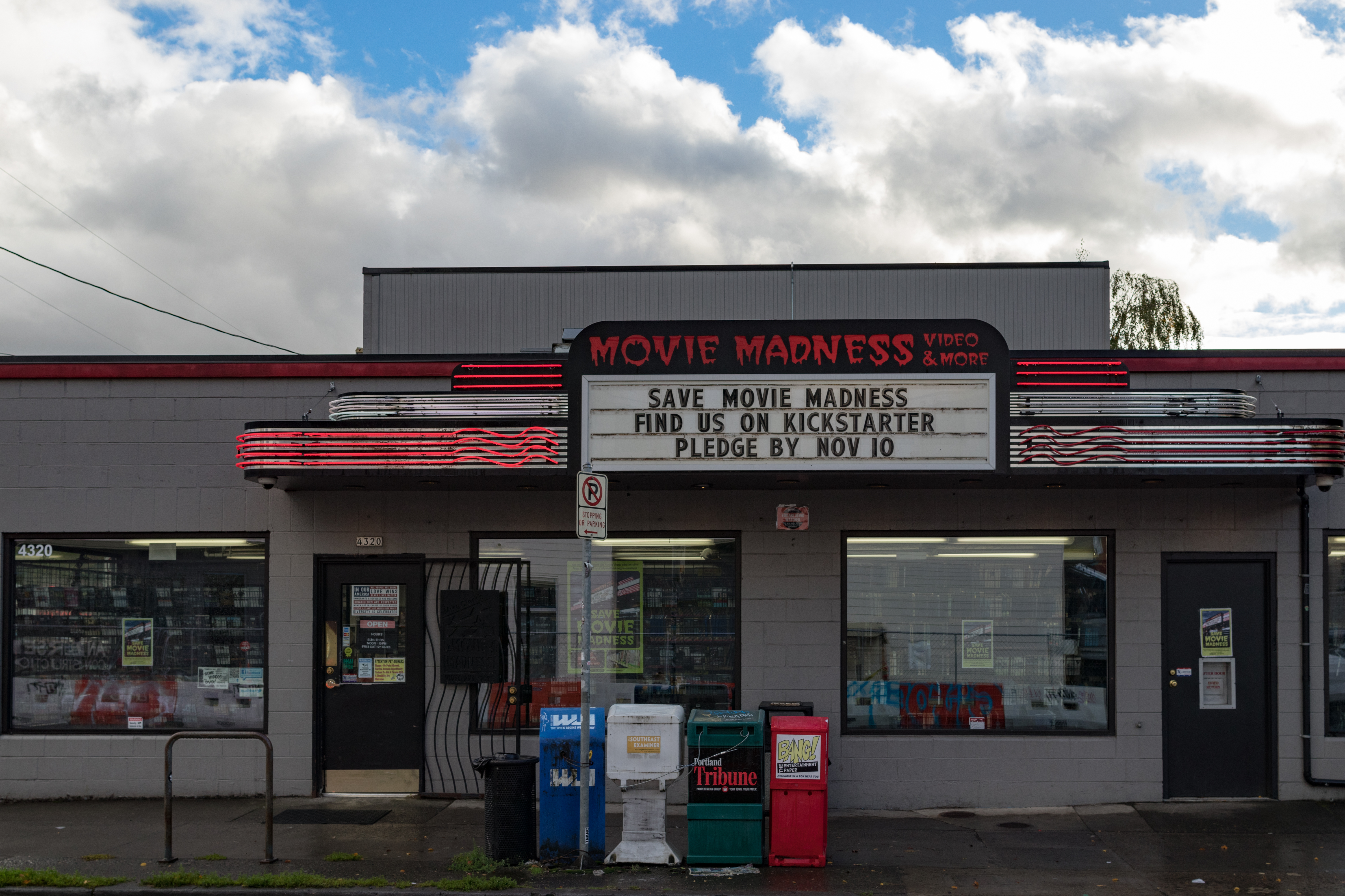 A better picture of the Movie Madness storefront.